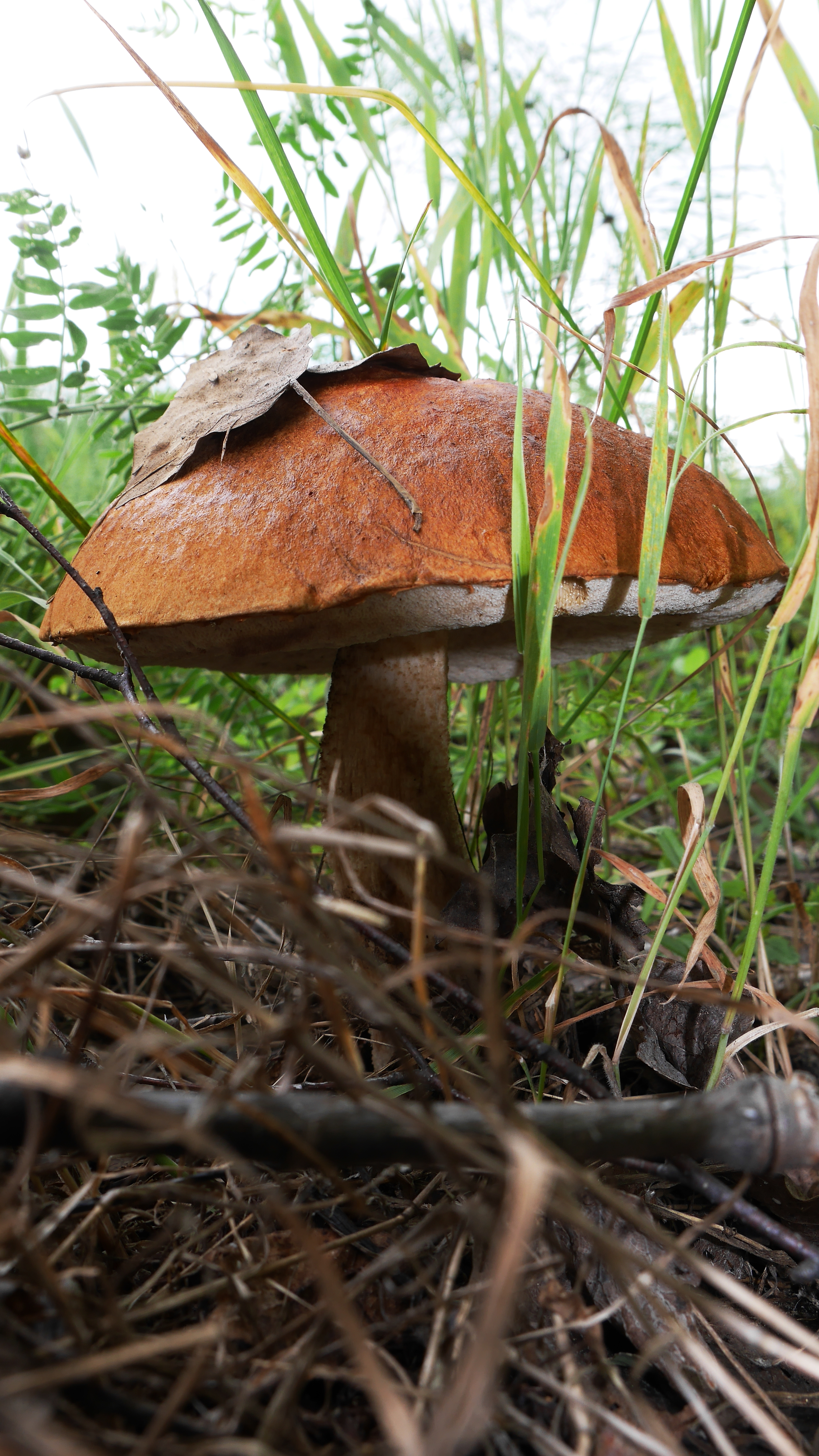 Leccinum scabrum (Belarus)